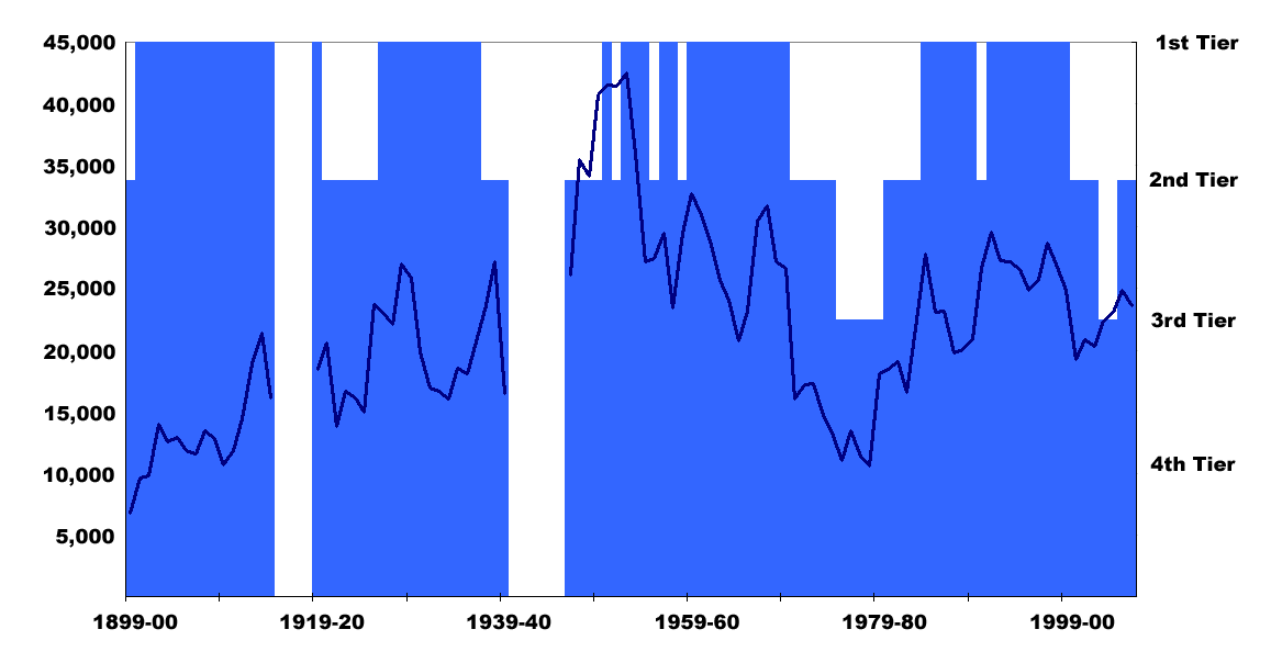 Graph of Sheffield Wednesday F.C. average league attendances since moving to Hillsborough Stadium in 1899 shown against tier of league football.